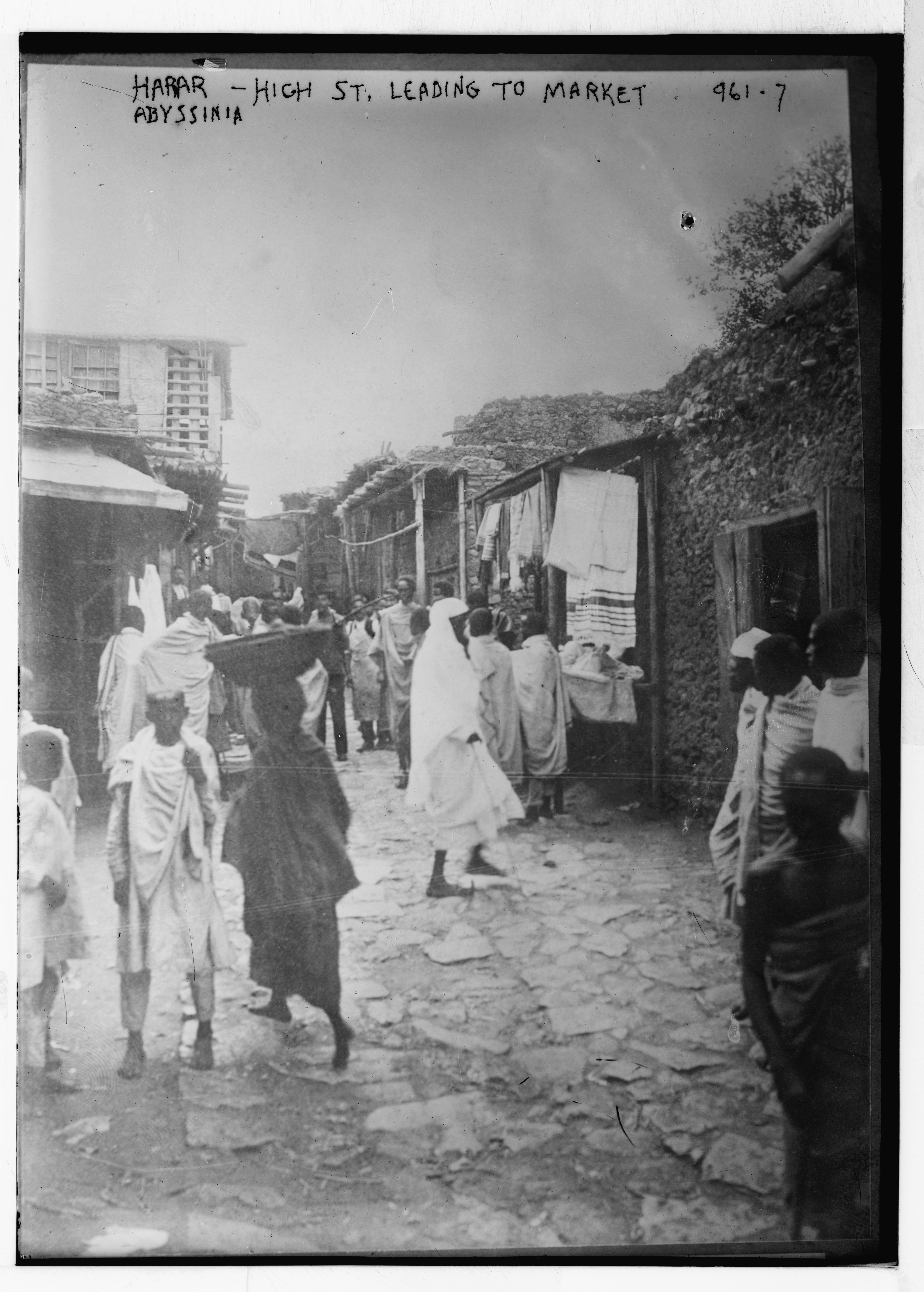 Street scene: Harar-High St. leading to market, Abyssinia. Title from unverified data on caption card or negative sleeve.